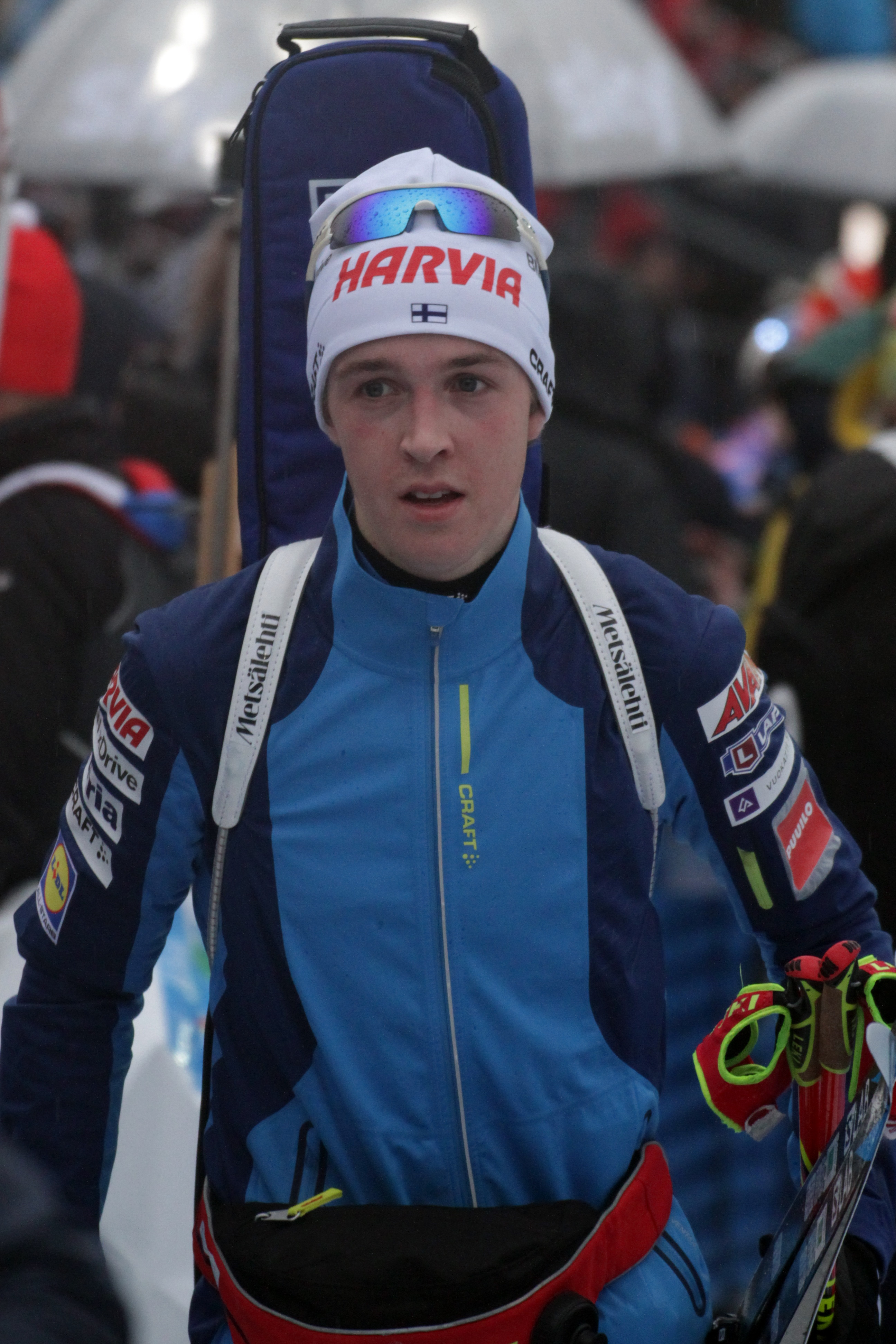 2018 Oberhof Biathlon World Cup - Pursuit Men